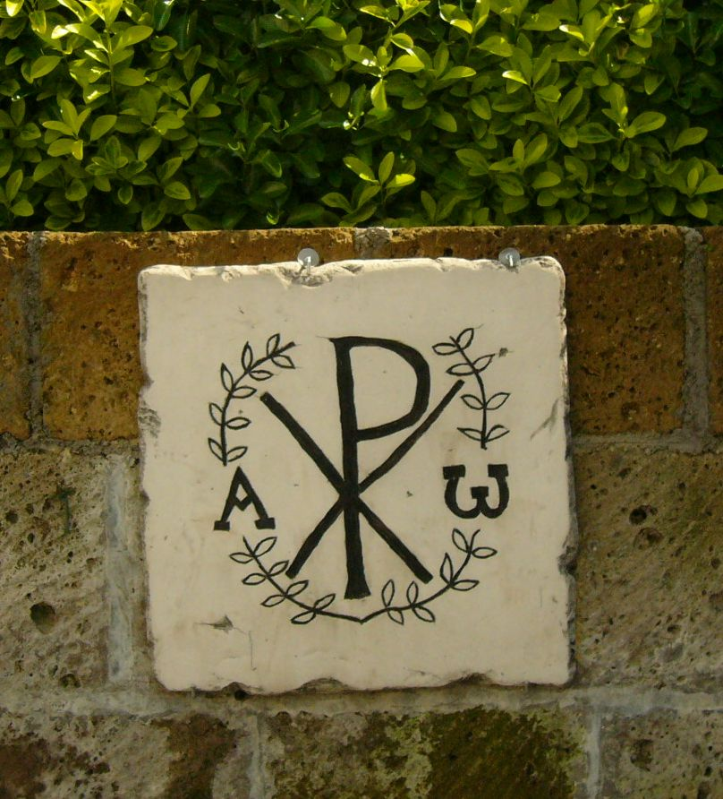 Symbol of Resurrection of Christ; X and P - first Greek letters of XRISTOS - famous as first-Christianity symbol. Place: Park of Domicila catacomb, Rome, simulation. Original in Vatican Museum